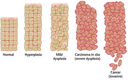 Comparison of normal cells vs. cancerous cells.